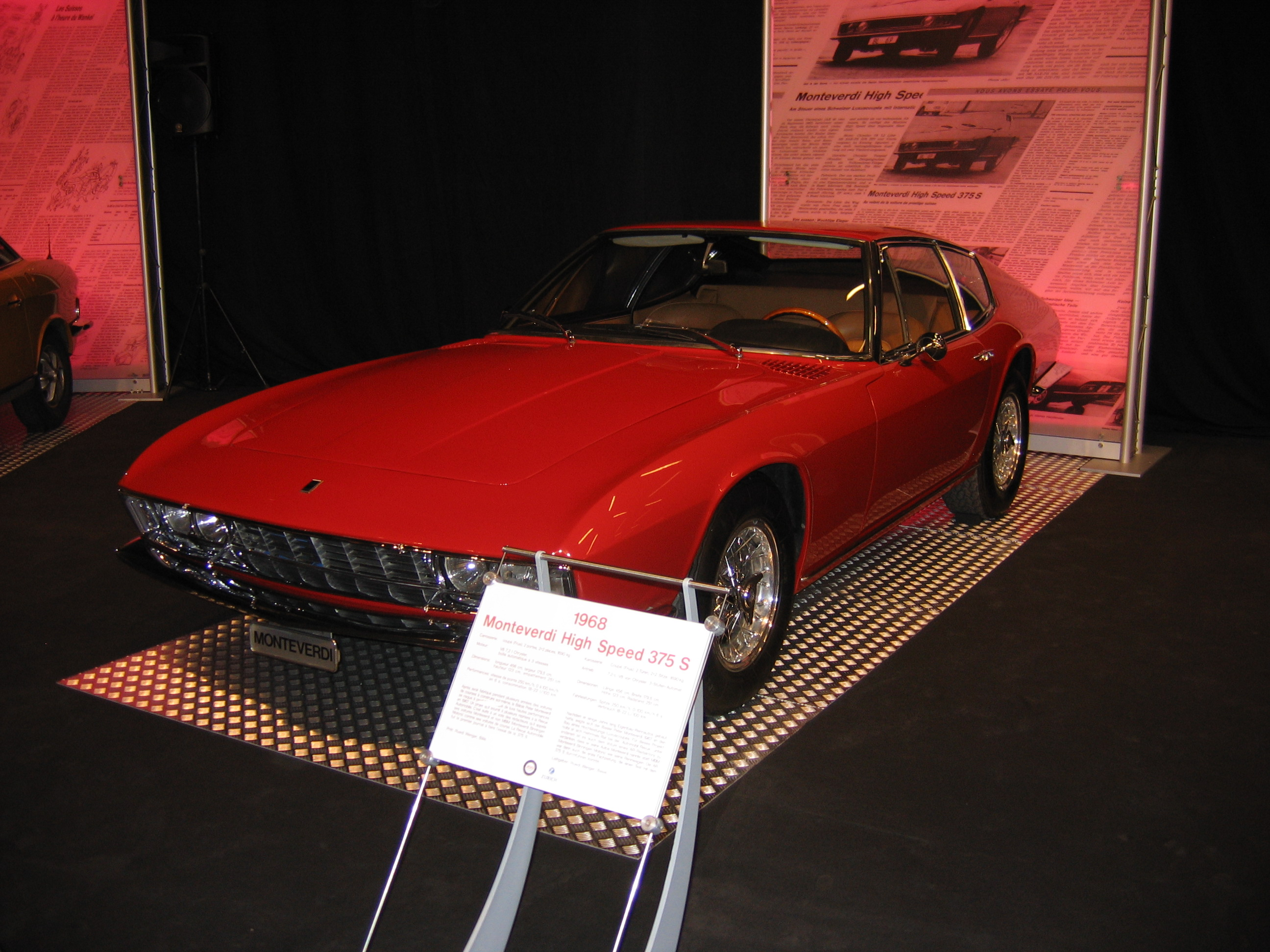 Geneva Motor Show 2006